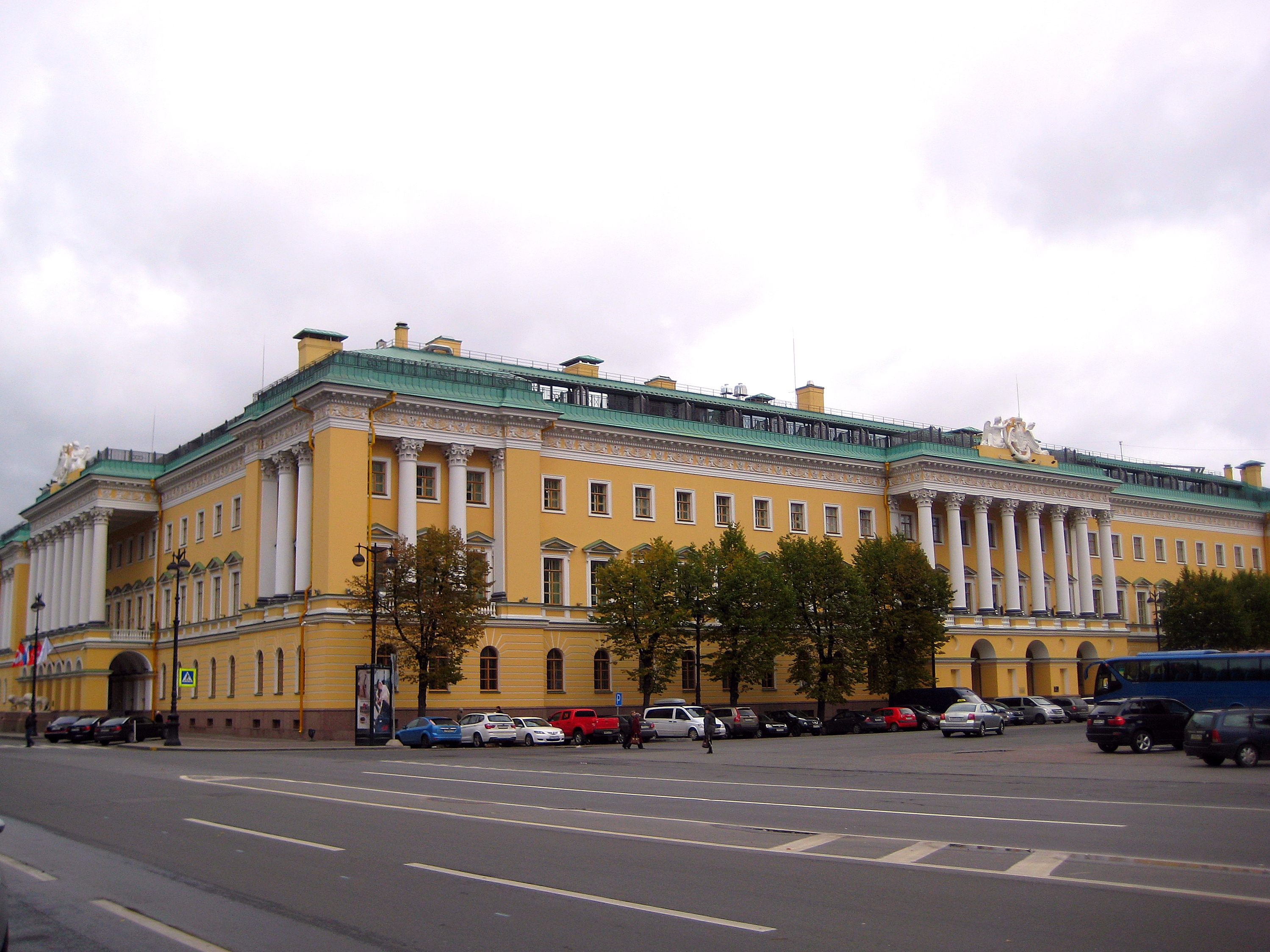 House of A.Ya. Lobanov-Rostovsky (arch. Montferrand), 1817-1820. In the house lived (1926-1928) Academician N.I. Vavilov. : Isaakiyevskaya Square, 2 / Admiralteysky Prospekt, 12 / Voznesensky Prospect, 1. Admiralteysky District, St. Petersburg